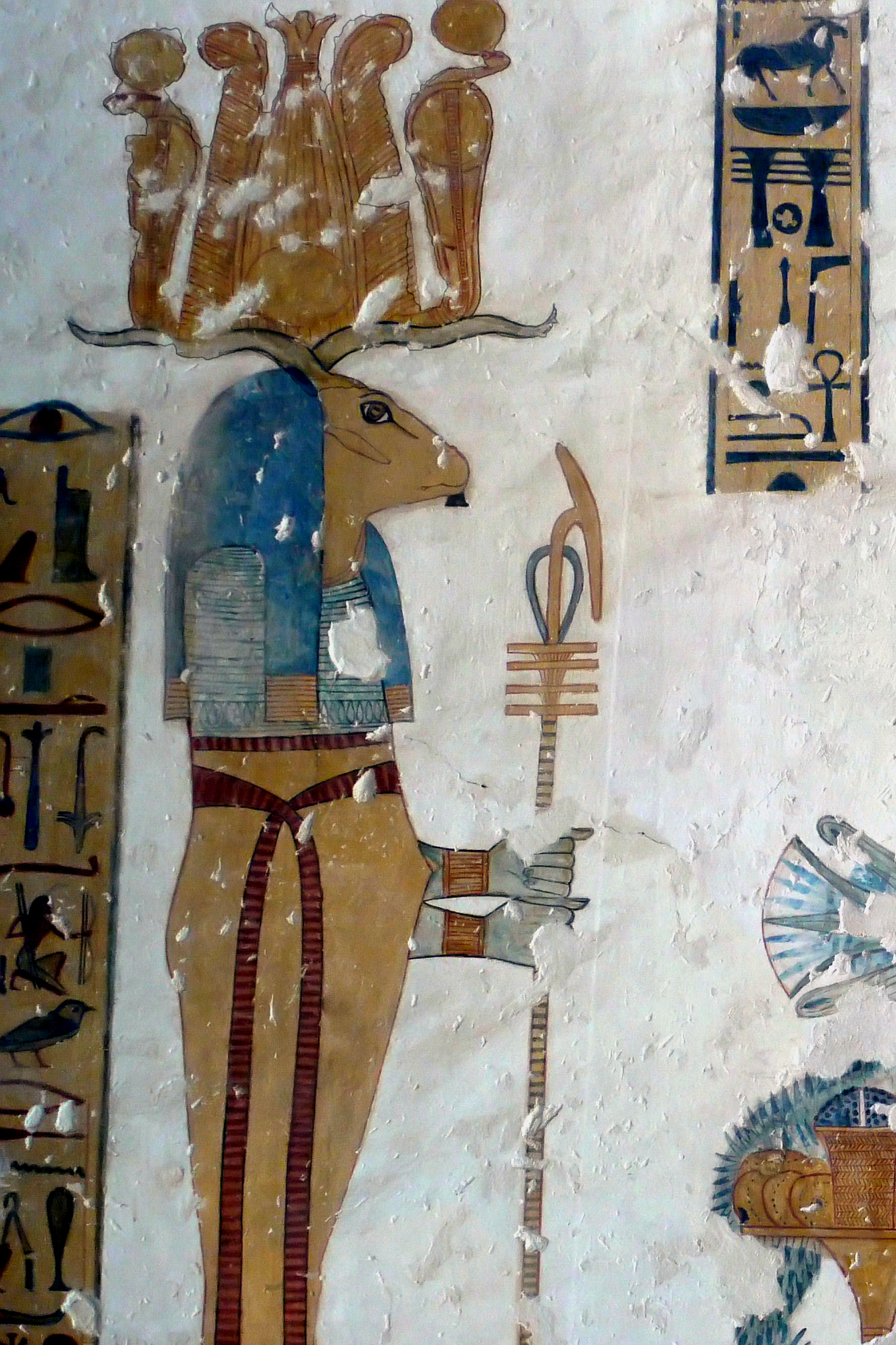 King’s Valley (KV) tomb No.19 belongs to Prince Mentuherkhepsef, a son of pharaoh Ramesses IX. It was originally designated to be the burial place of pharaoh Ramesses VIII until this king’s premature death aborted this plan. KV19 is only partly decorated but it features some of the finest reliefs dating to the Late New Kingdom period of Egypt.